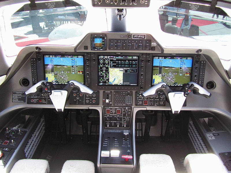 Cockpit of the Embraer Phenom 100